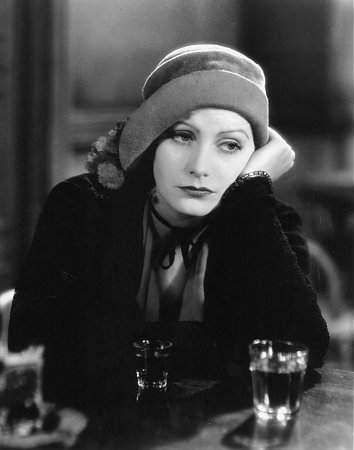 Greta Garbo in a publicity image for Anna Christie